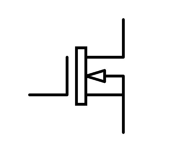 N channel mosfet transistor